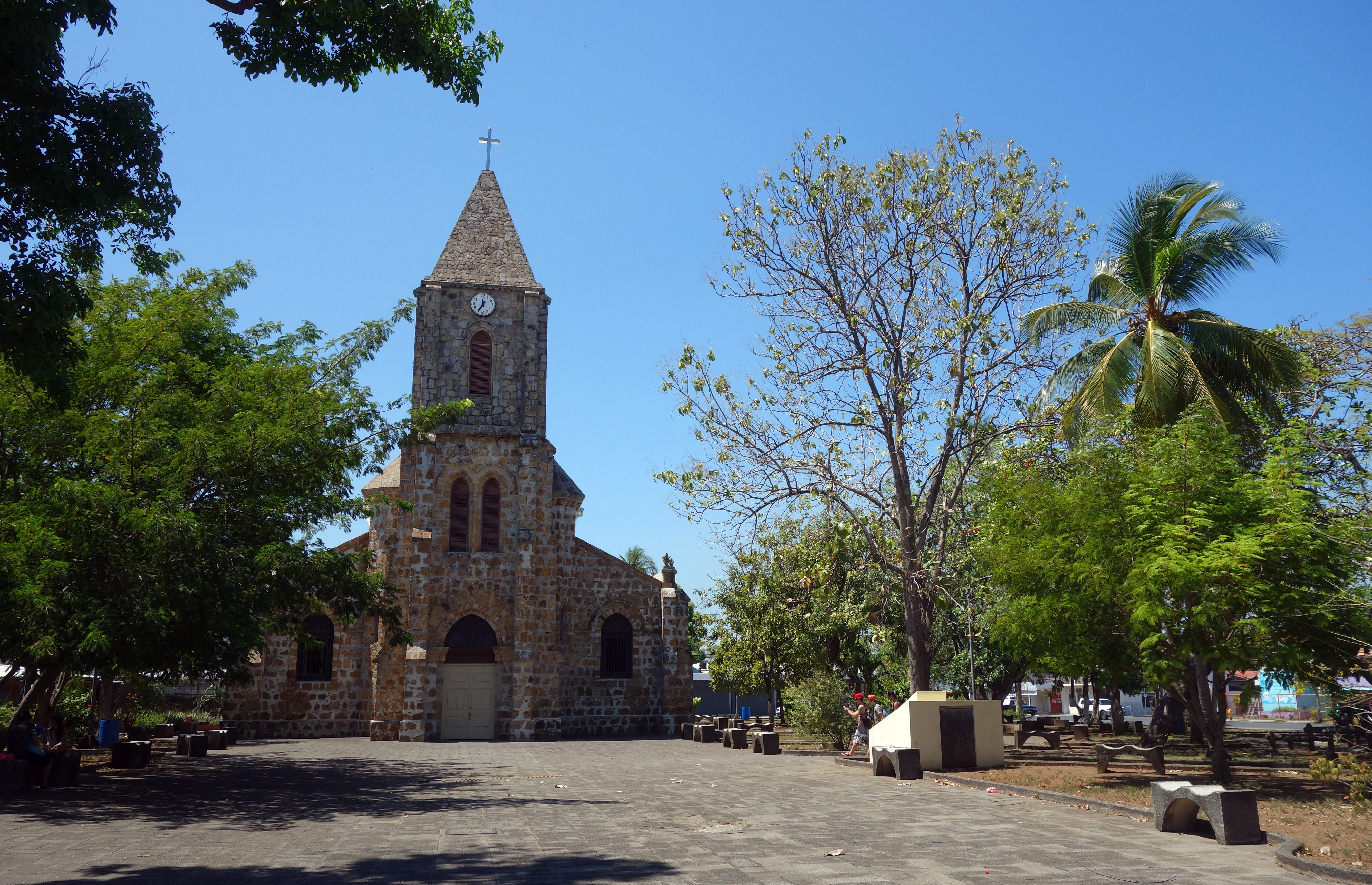 The Cathedral and the Parque Central of Puntarenas, Costa Rica